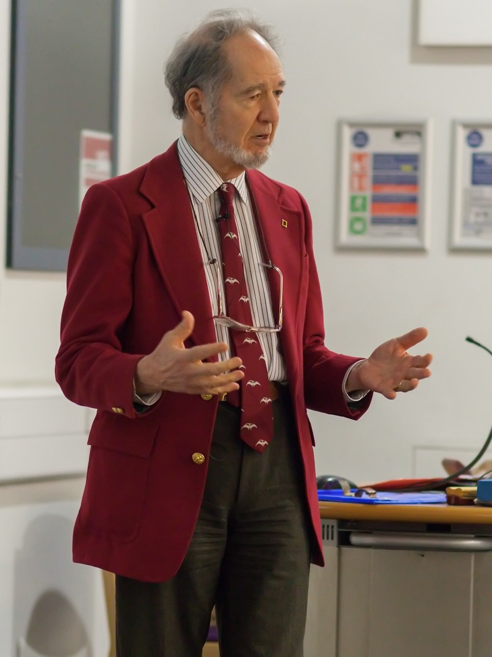 Jared Diamond speaking at University College London